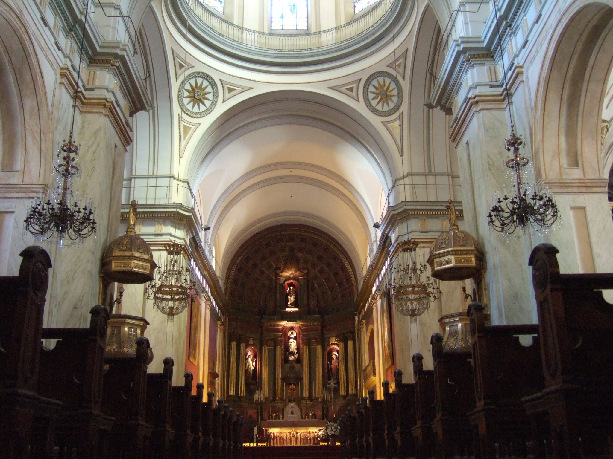 Interior of Montevideo Cathedral